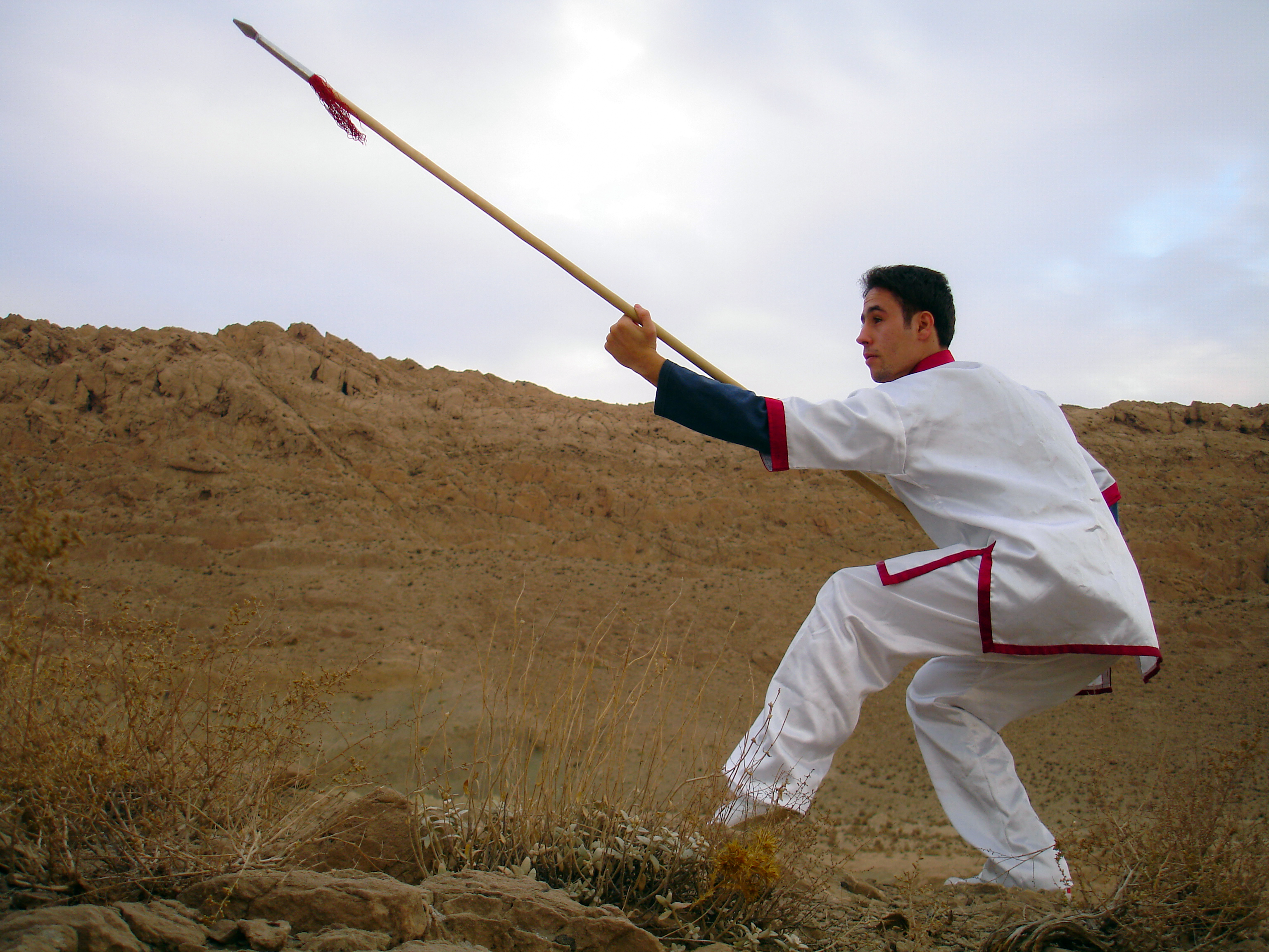 Kung fu/Kungfu or Gung fu/Gongfu (/ˌkʌŋˈfuː/ (About this sound listen) or /ˌkʊŋˈfuː/; 功夫, Pinyin: gōngfu) is a Chinese term referring to any study, learning, or practice that requires patience, energy, and time to complete. አማርኛ: ኩንግ-ፉ (ቻይንኛ፦ ጎንግፉ) በቻይና ሀገር የሚያስተምሩ የትግል (ቡጢ) ሙያ ማለት ነው። በትክክለኛ ቻይንኛ ይህ የቡቅሻ ትግል ዉሹ ሲባል፣ የ«ኩንግፉ» ትርጉም በትክክል የማናቸውም አይነት ሙያ ወይም መልመጃ ነው። ለምሳሌ፣ «ኮንግ-ፉ ቻ» ማለት በሻይ (ቻ) ሥነ ሥርዓት ያለው ሙያ ማለት ነው። ከ1960ዎቹ ጀምሮ ግን የቻይና ቡቅሻ በተለይ በእንግሊዝኛ ኩንግ-ፉ ተብሏል።